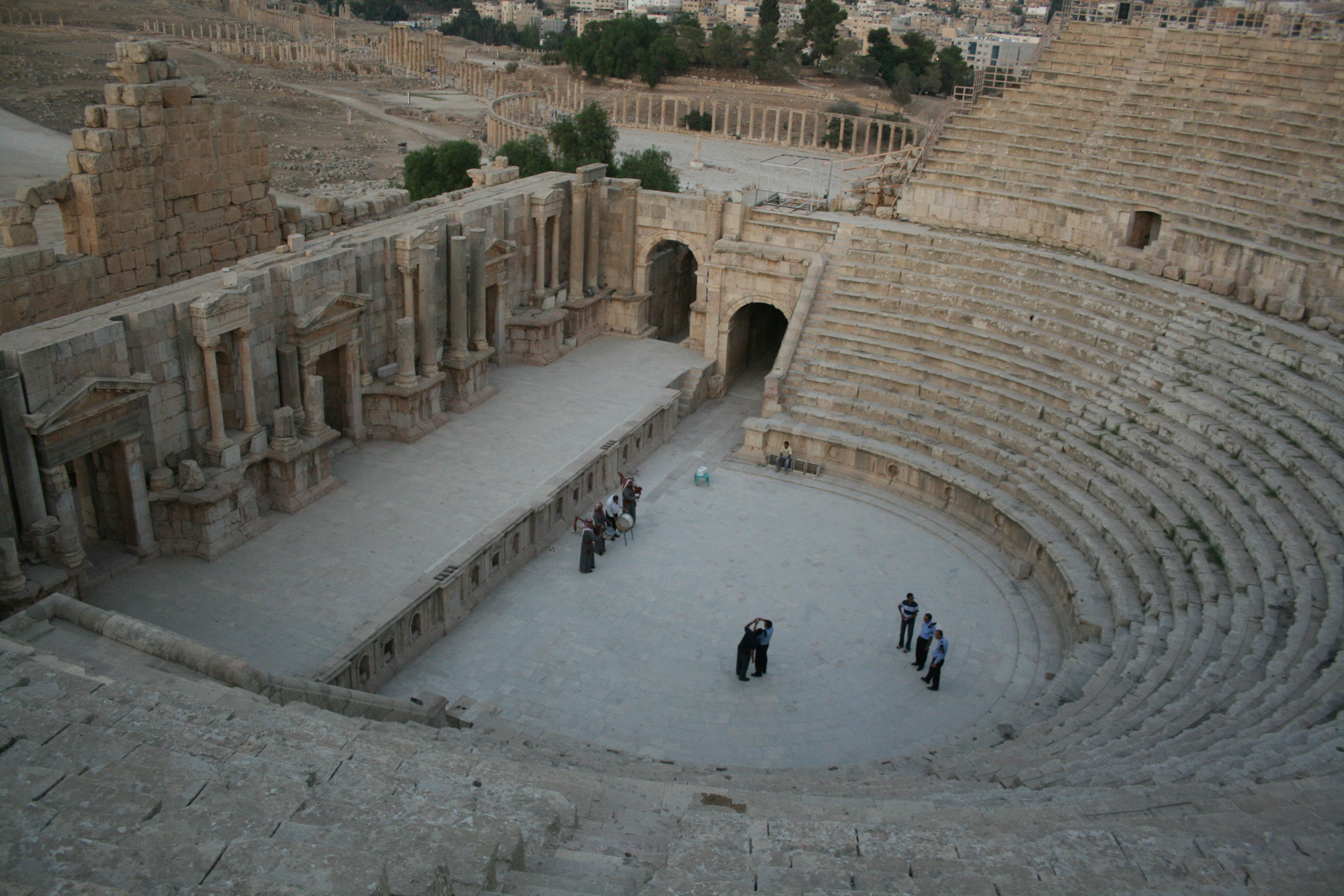 South Theater, Jerash, Jordan